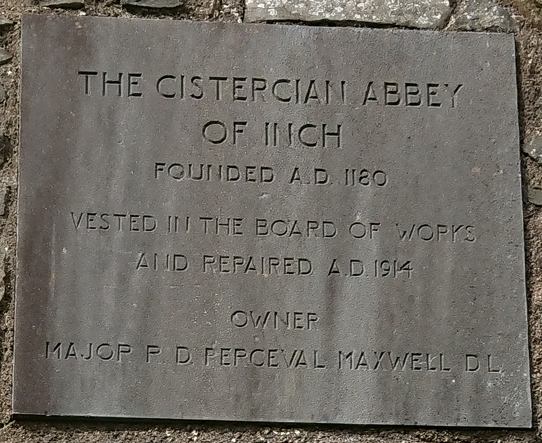 The Cistercian Abbey of Inch - Founded A.D. 1180 - Vested in the Board of Works and Repaired A.D. 1914 - Owner Major P. D. Perceval Maxwell DL